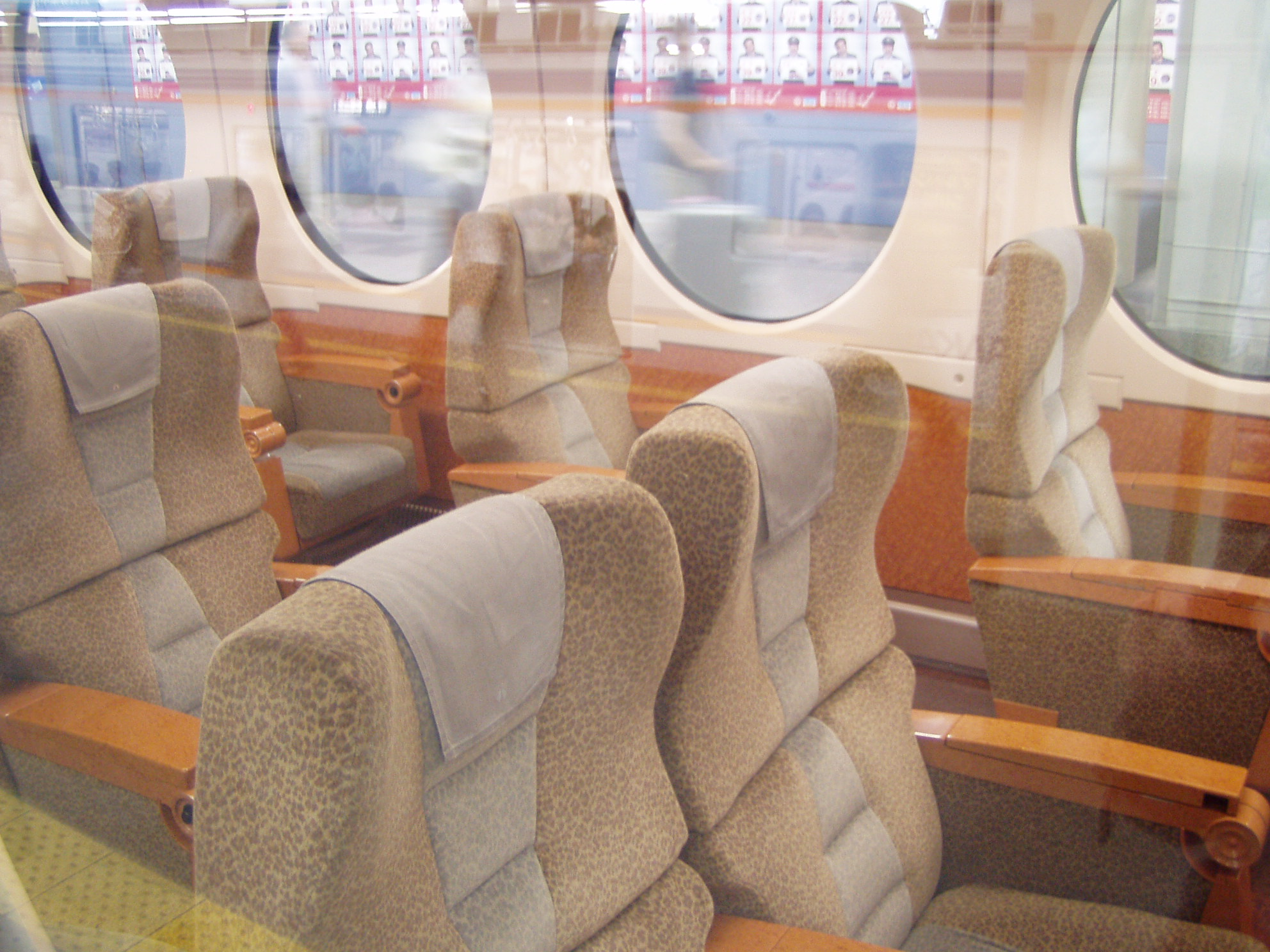 Nankai Denki Tetsudo. Interior of Rapi:t train.